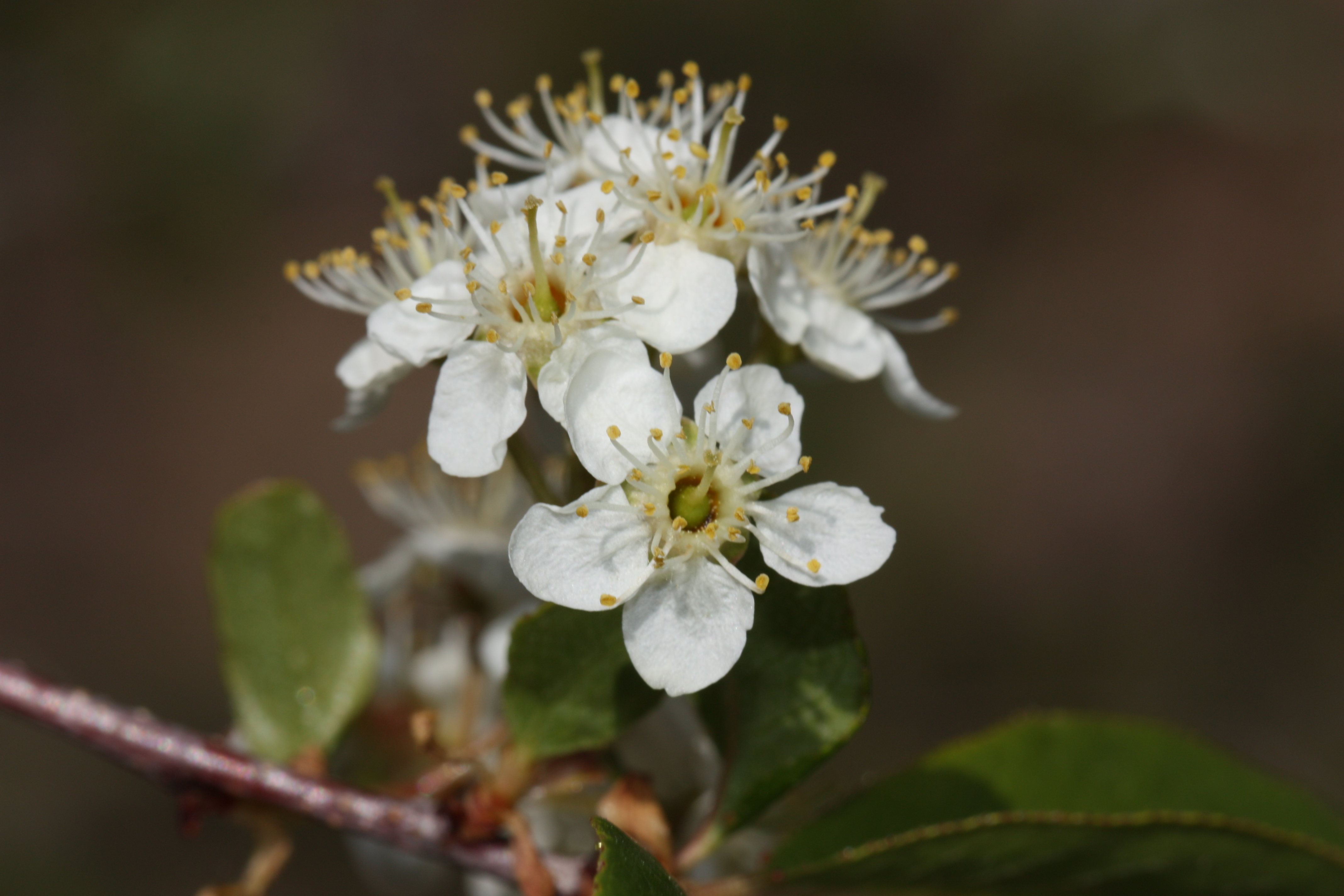 Bitter Cherry Viewpoint location: Tronsen Ridge Trail #1204, Tronsen Ridge Viewpoint elevation: 1426 meter (4678 ft) Location source: Garmin GPSmap 60CSx Location Datum: WGS84